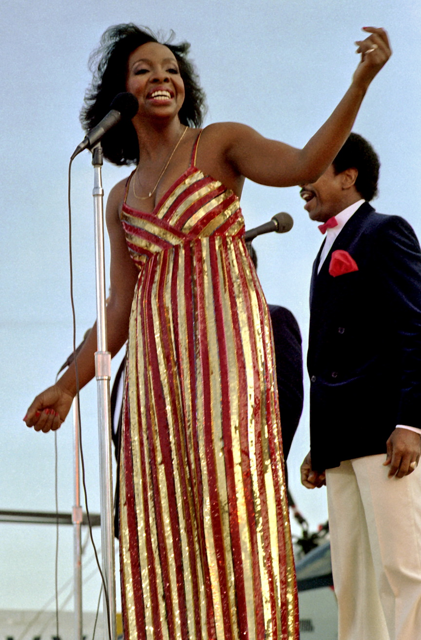 Gladys Knight and the Pips perform aboard the aircraft carrier USS RANGER (CV-61) during the special Suzanne Somers show.